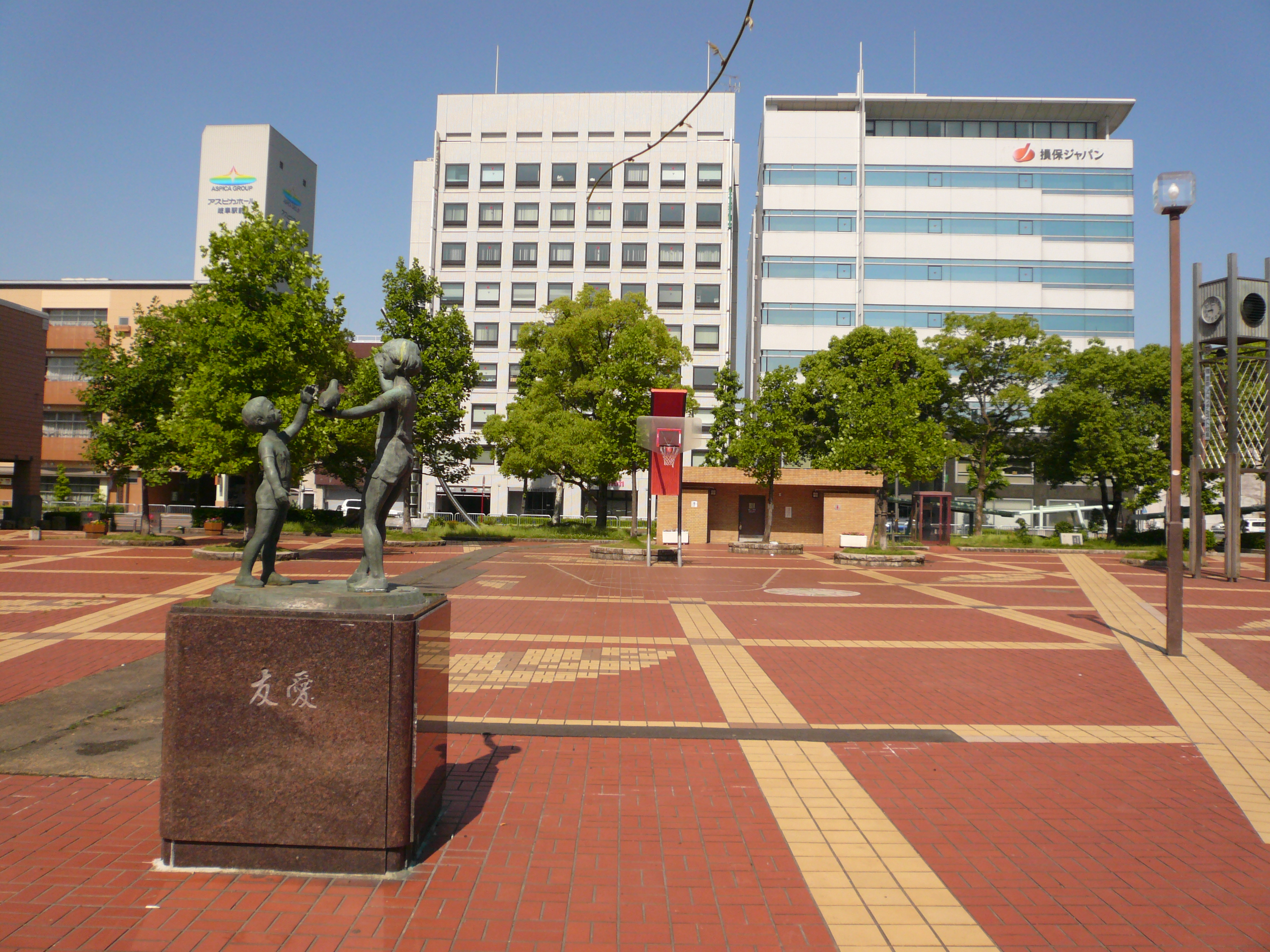 Kogane Park, Gifu, Gifu, Japan